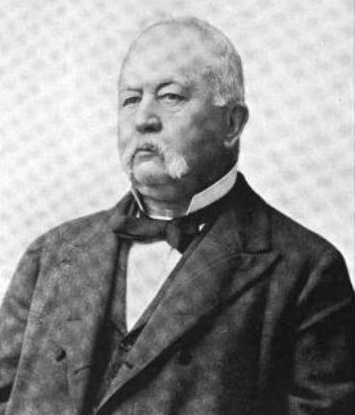 Charles S. Cary, western New York lawyer, businessman and politician.